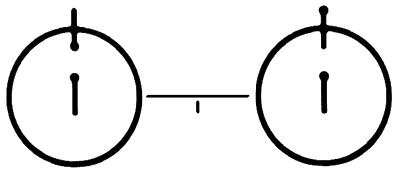 Detail of hyperfine transition of neutral hydrogen from the Pioneer Plaques.